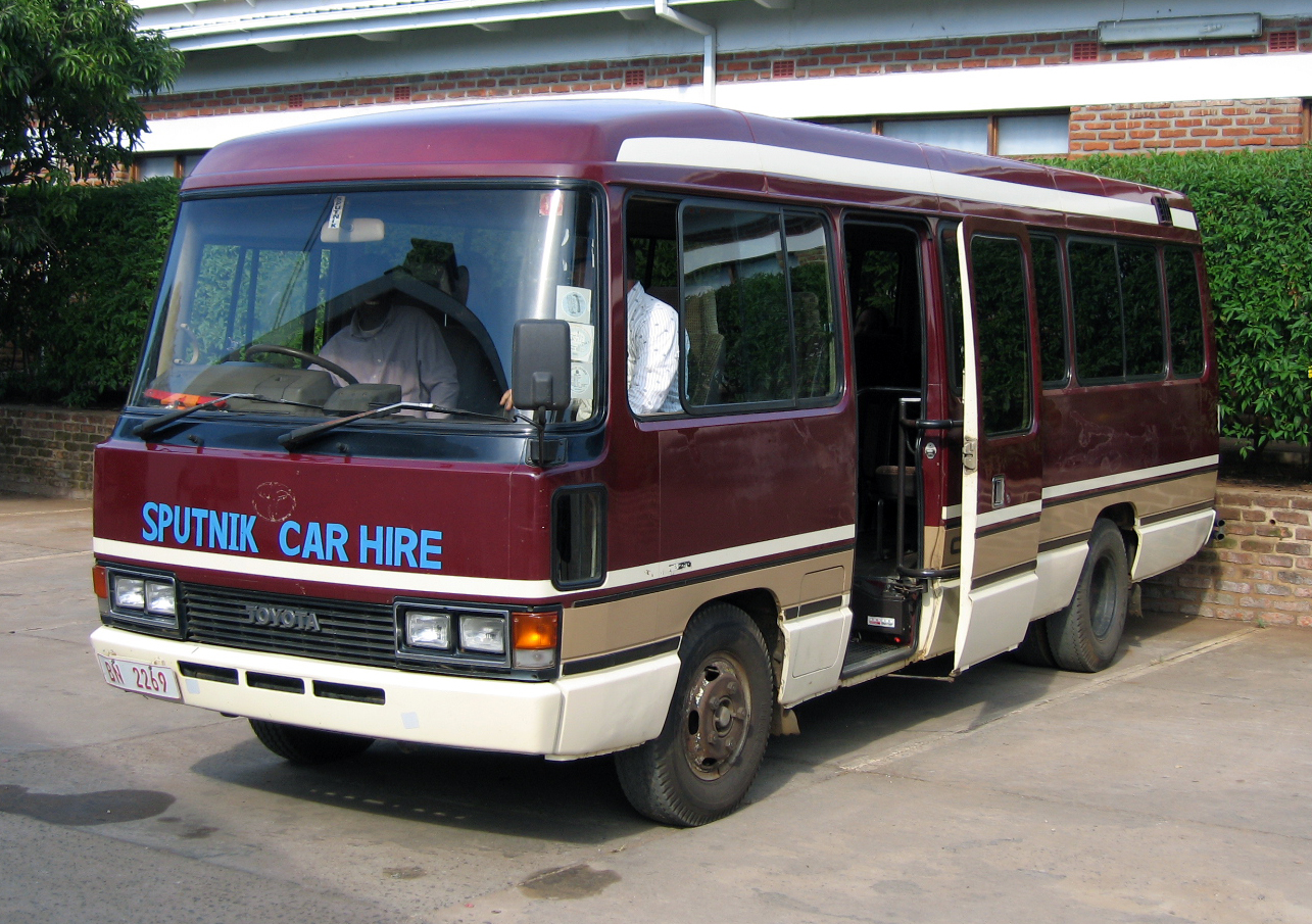 Toyota Coaster rental bus in Lilongwe, Malawi